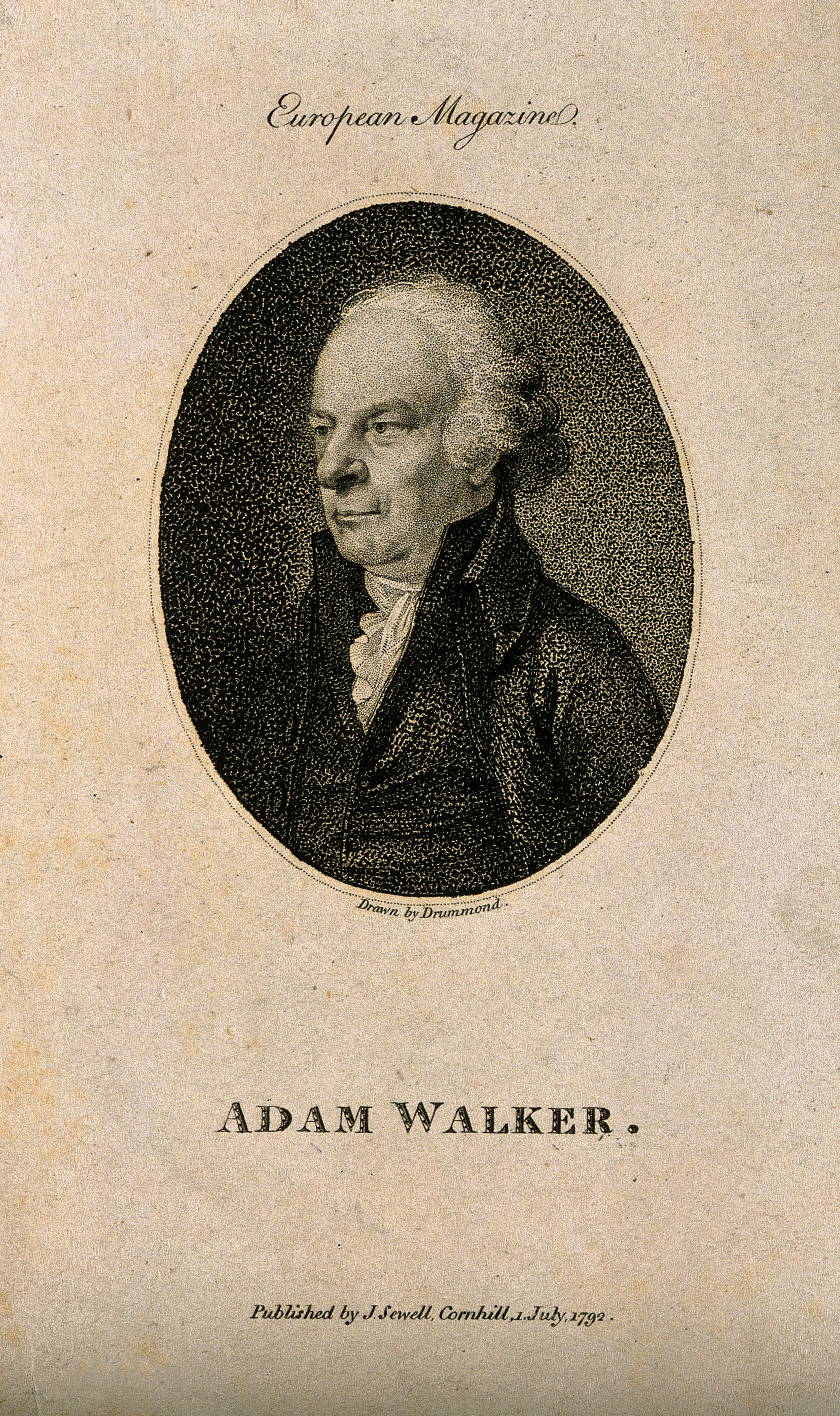 Adam Walker. Stipple engraving after S. Drummond. Iconographic Collections Keywords: portrait prints; Adam Walker; stipple prints